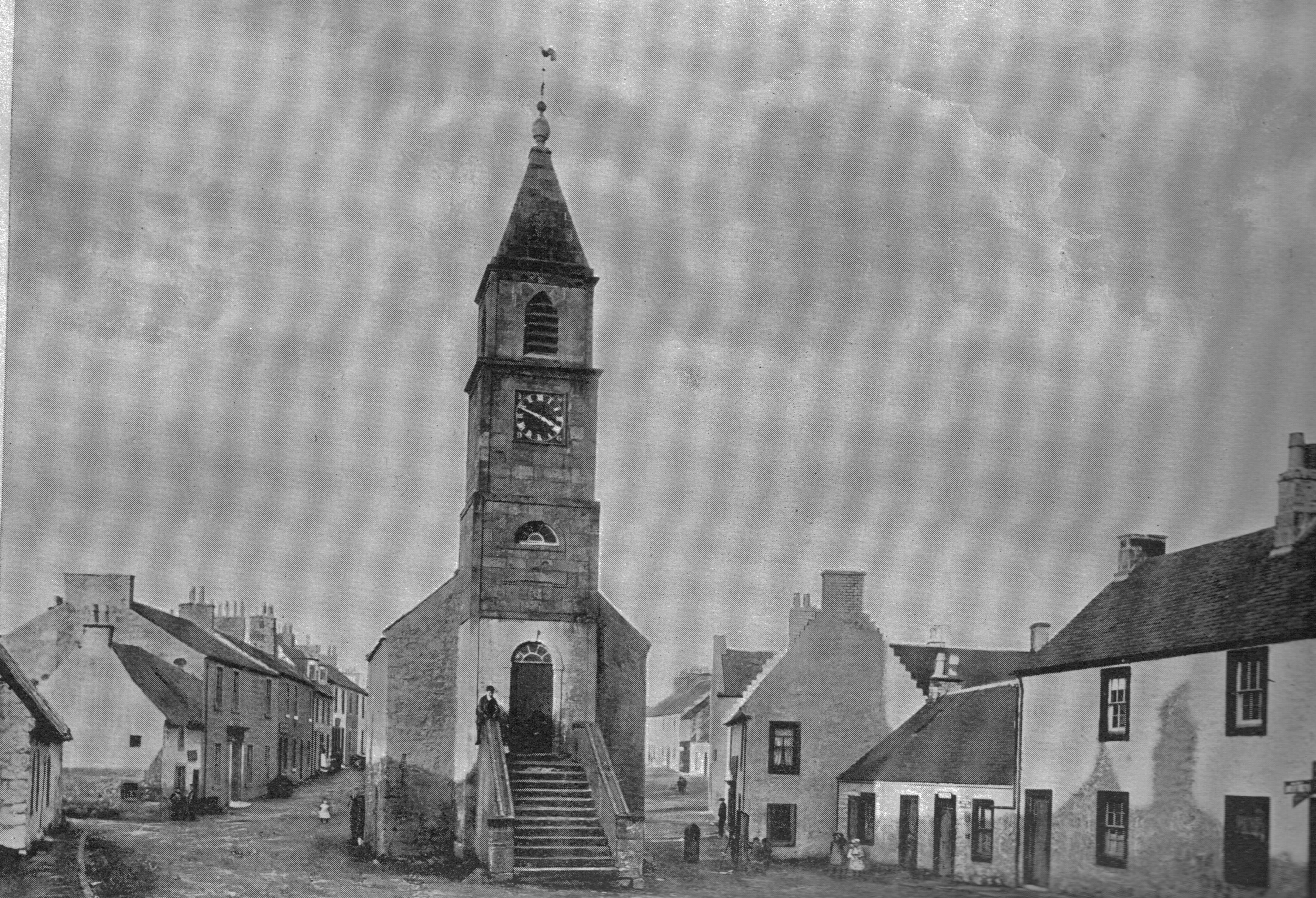 Kilmaurs and the Jougs, 1900. East Ayrshire, Scotland.